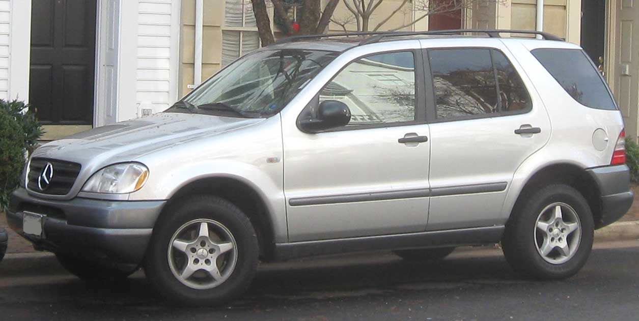 1998-2001 Mercedes-Benz ML photographed in Alexandria, Virginia, USA.